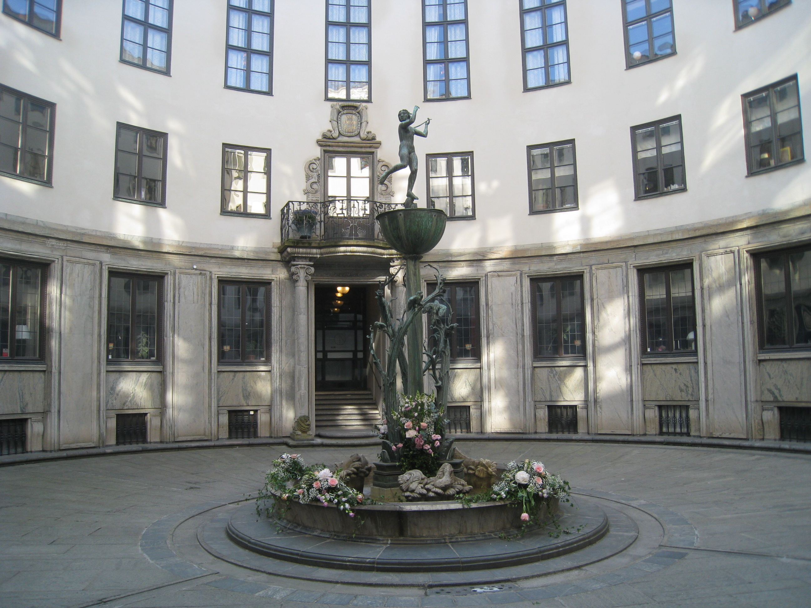 Carl Milles, Diana Fountain, bronze sculpture, Tändstickspalatset (Match Palace), Västra Trädgårdsgatan 15, Stockholm.